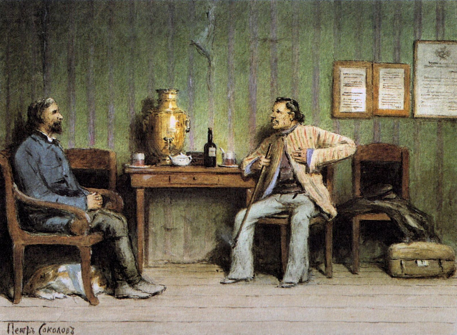 The narrator and Piotr Karataev have met in a coaching inn. “The new comer sat down on the bench, flung his cap on the table, and passed his hand over his hair. ‘Have you had tea already?’ he inquired of me. ‘Yes.’ ‘But won’t you have a little more for company.’ I consented. The stout red samovar made its appearance for the fourth time on the table. I brought out a bottle of rum. I was not wrong in taking my new acquaintance for a country gentleman of small property. His name was Piotr Petrovitch Karataev. We got into conversation. In less than half-an-hour after his arrival, he was telling me his whole life with the most simple-hearted openness. ” —Ivan Turgenev. Piotr Petrovich Karataev (translation by Constance Garnett)